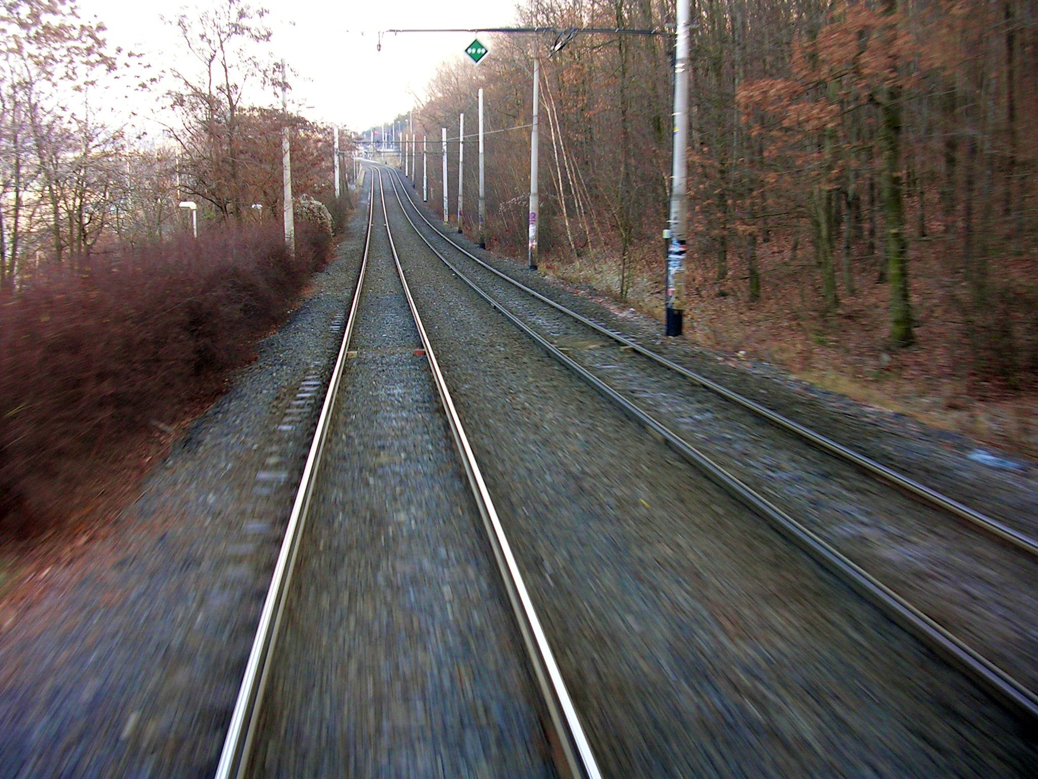 Žižkov, Prague, the Czech Republic. Tram track Ohrada – Palmovka.